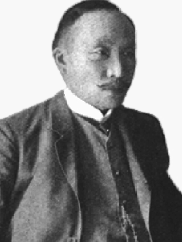 Yi Tjoune (Hague Secret Emissary Affair)